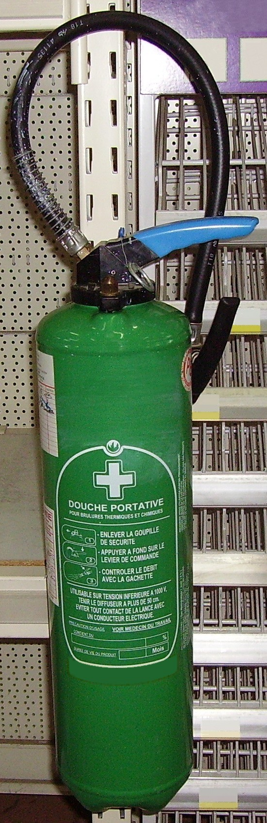 Portable safety shower. Capacity: 9 L.